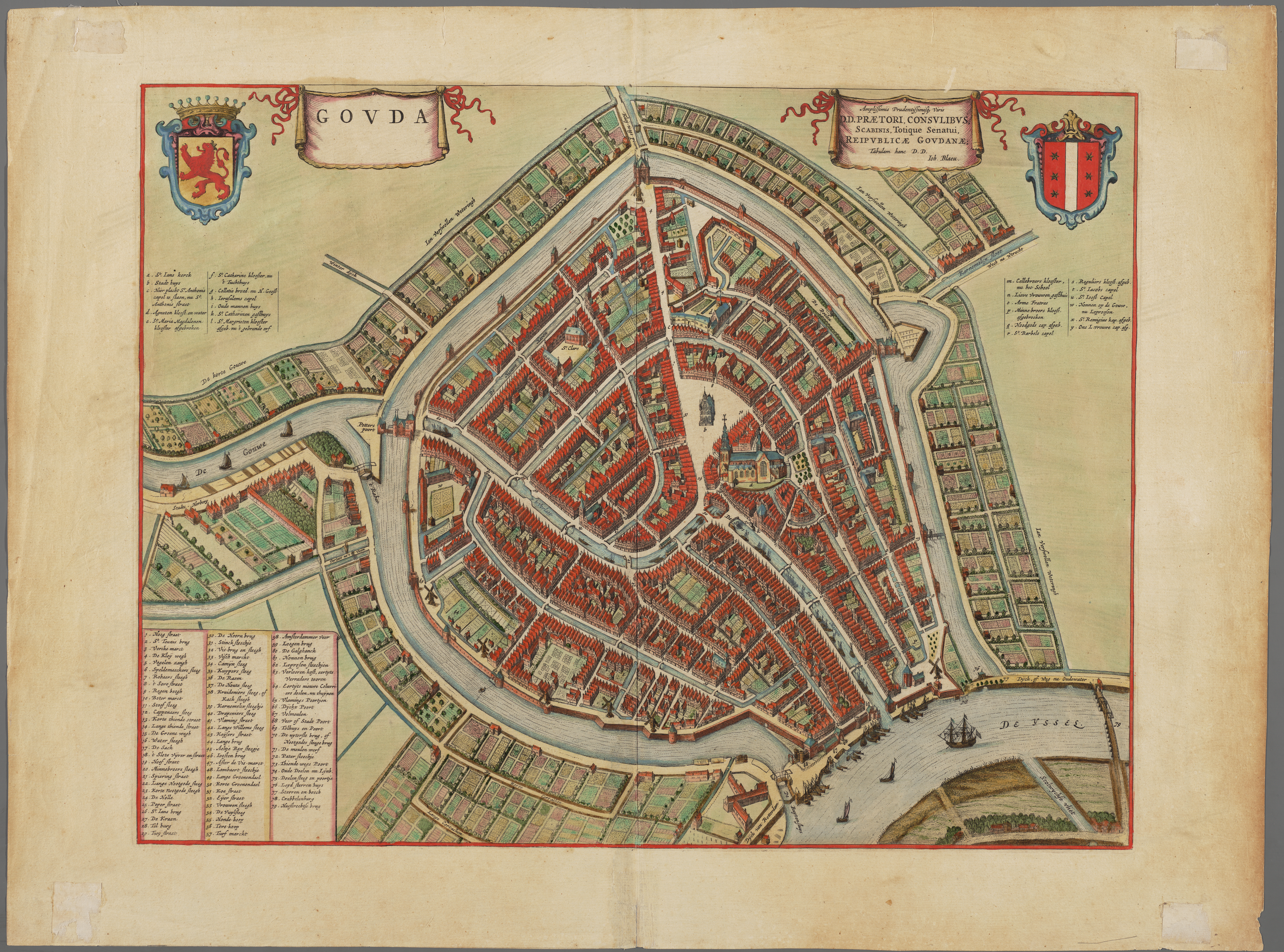 Map of the Dutch city of Gouda, ca 1650. Afmetingen: 46 x 62 (binnenkader: 38 x 50). Techniek: koperdruk (ingekleurd)